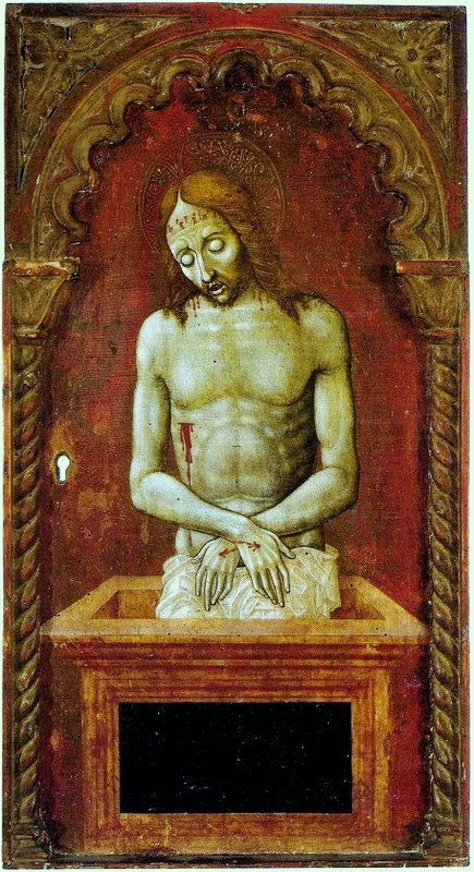 The Dead Christ in the Sarcophagus as "Vir Dolorum"